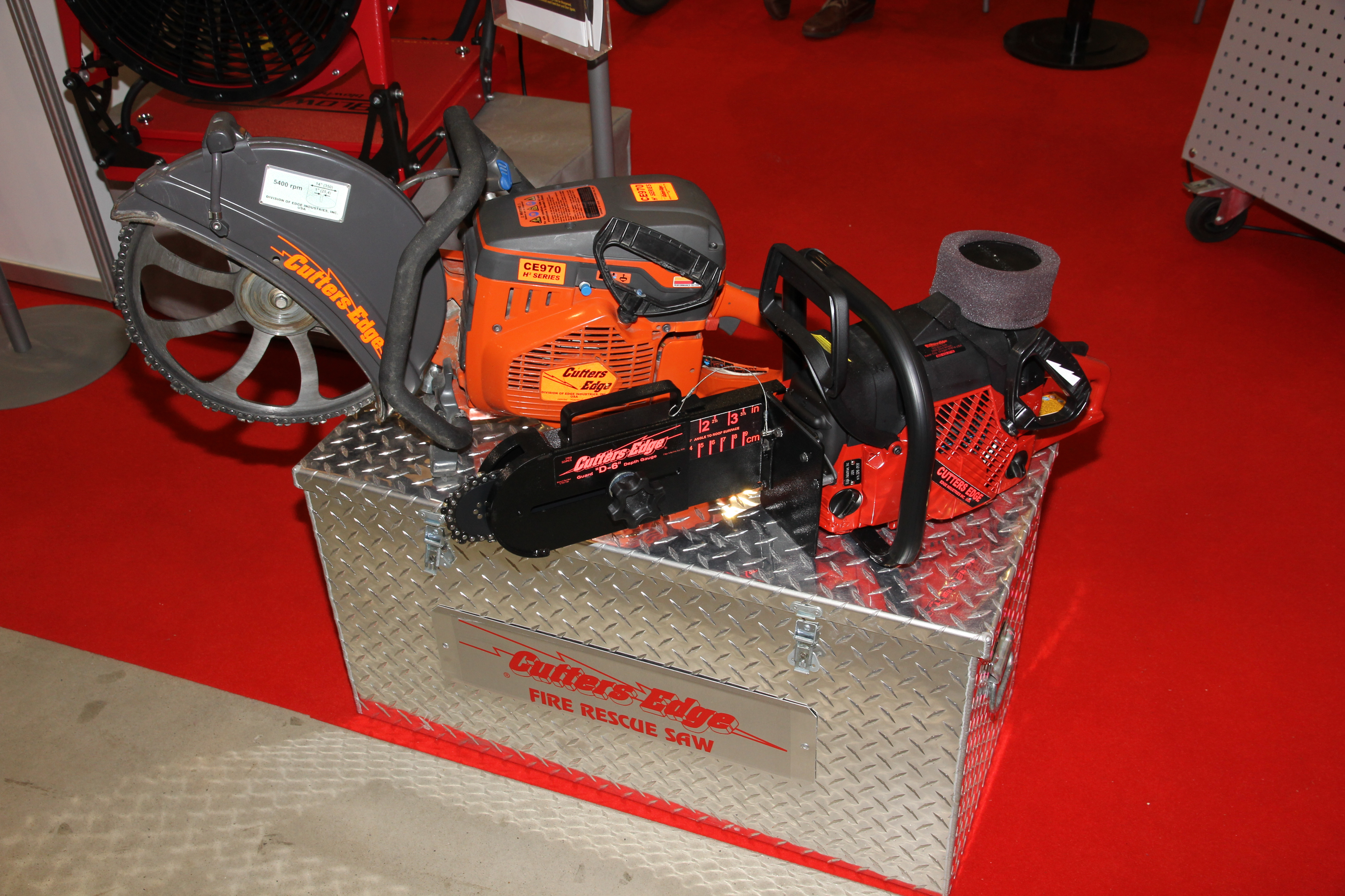 Cutters Edge fire rescue saws at Comprehensive security exhibition 2015 in Tampere.